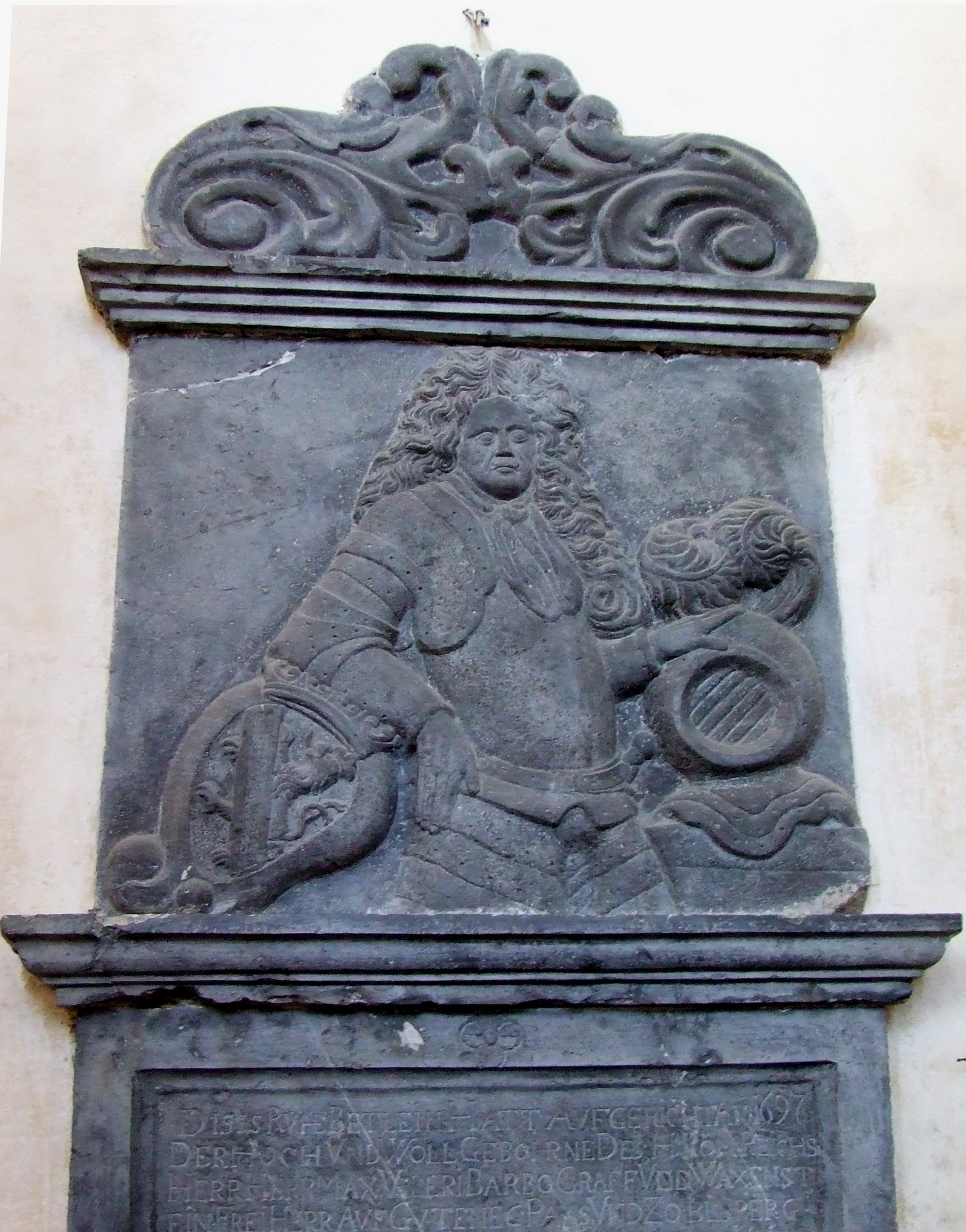 A portrait of Max Ulrich Barbo Graf von Waxenstein on wall relief in Church of Saint Rupert in Šentrupert, Slovenia. Author: Ines Zgonc.